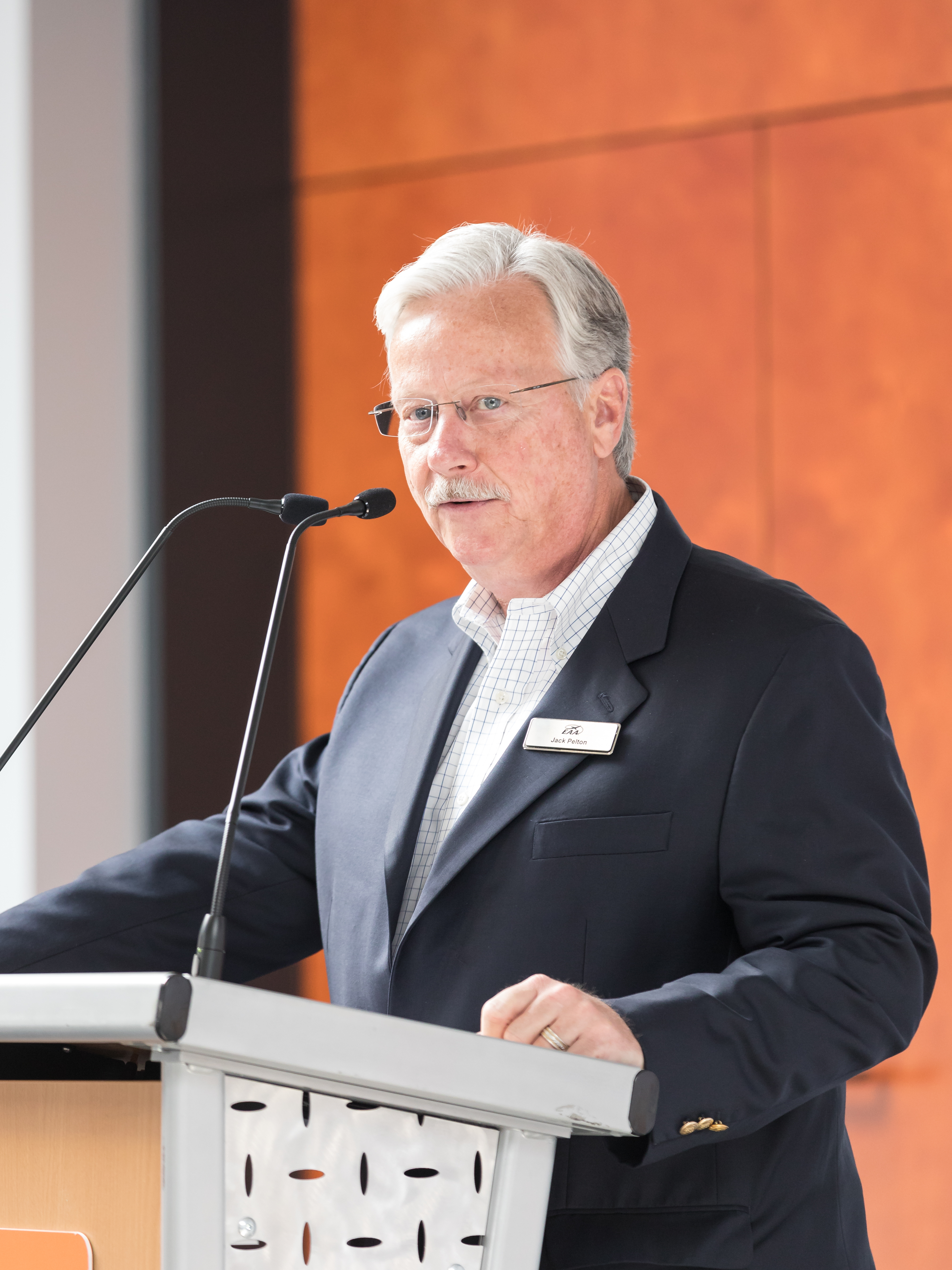 Jack Pelton, AERO Friedrichshafen 2018